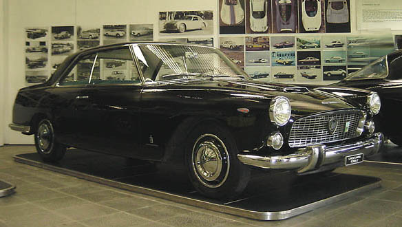 Lancia Florida II from 1957